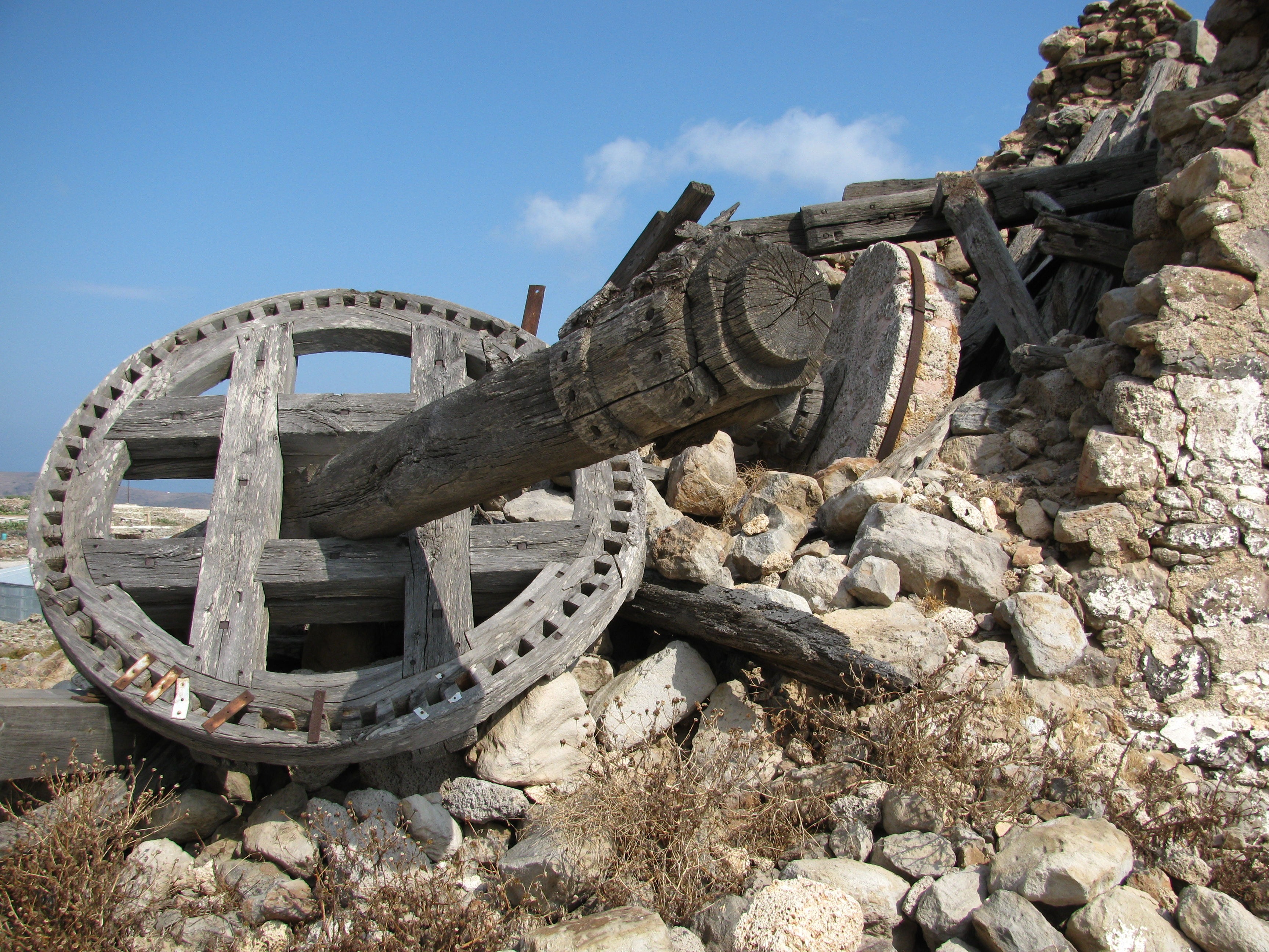 Windmills on Kimolos, October 2008